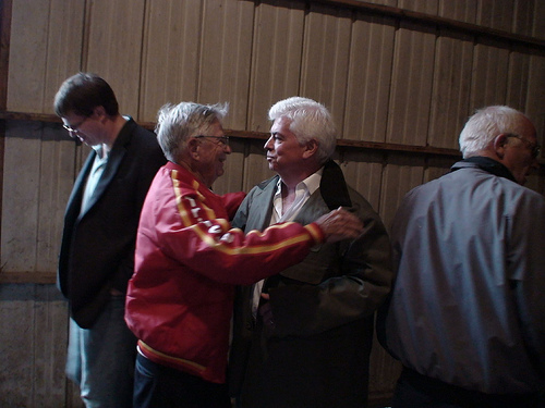 This is a picture, released by Chris Dodd under a free Creative Commons license, and it has Berkley Bedell hugging Chris Dodd. Congressional Staffer/Washington Bon Vivant looks away.